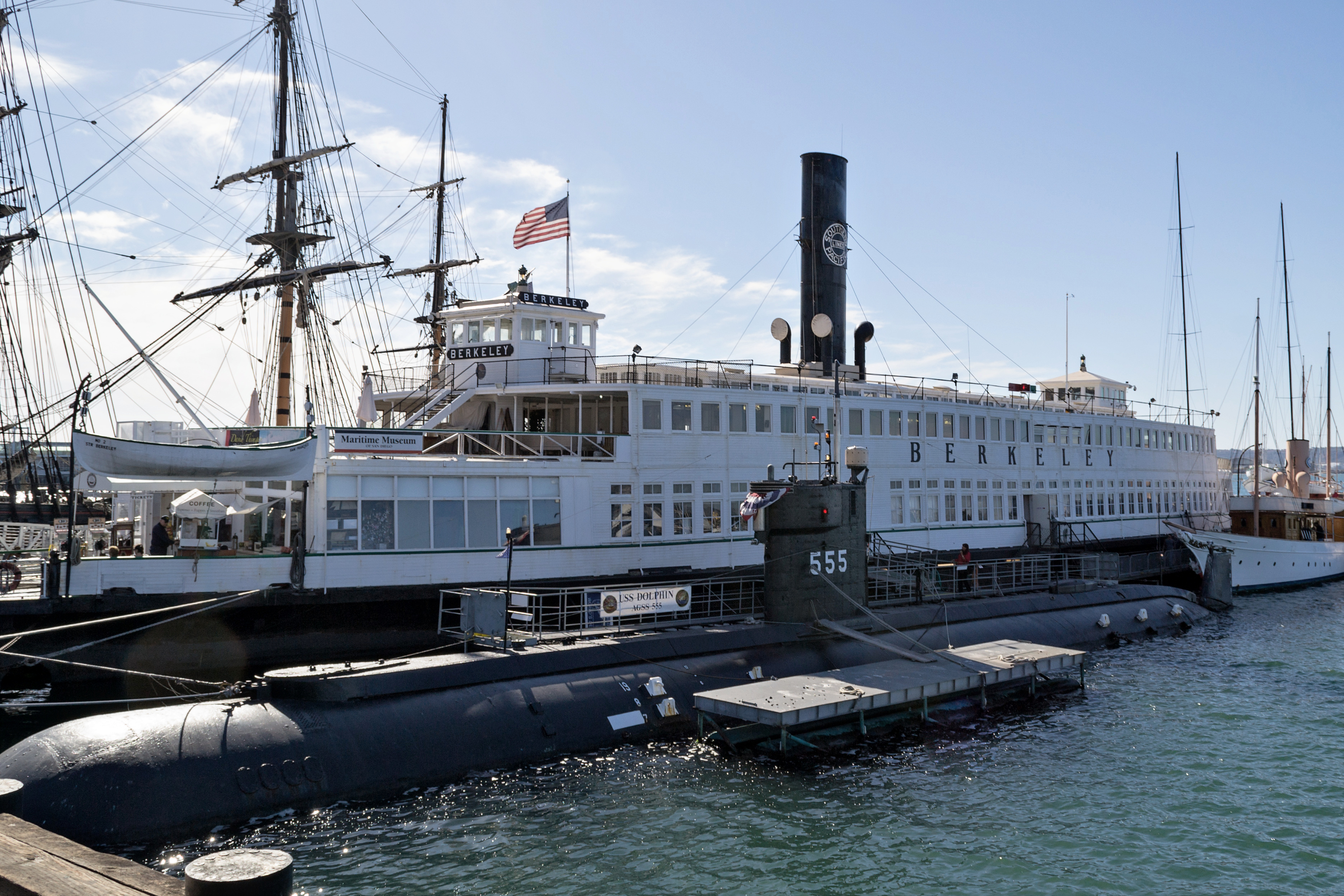 BERKELEY, B St. Pier San Diego, U.S.S. Dolphin, submarine, ferry, Maritime Museum of San Diego